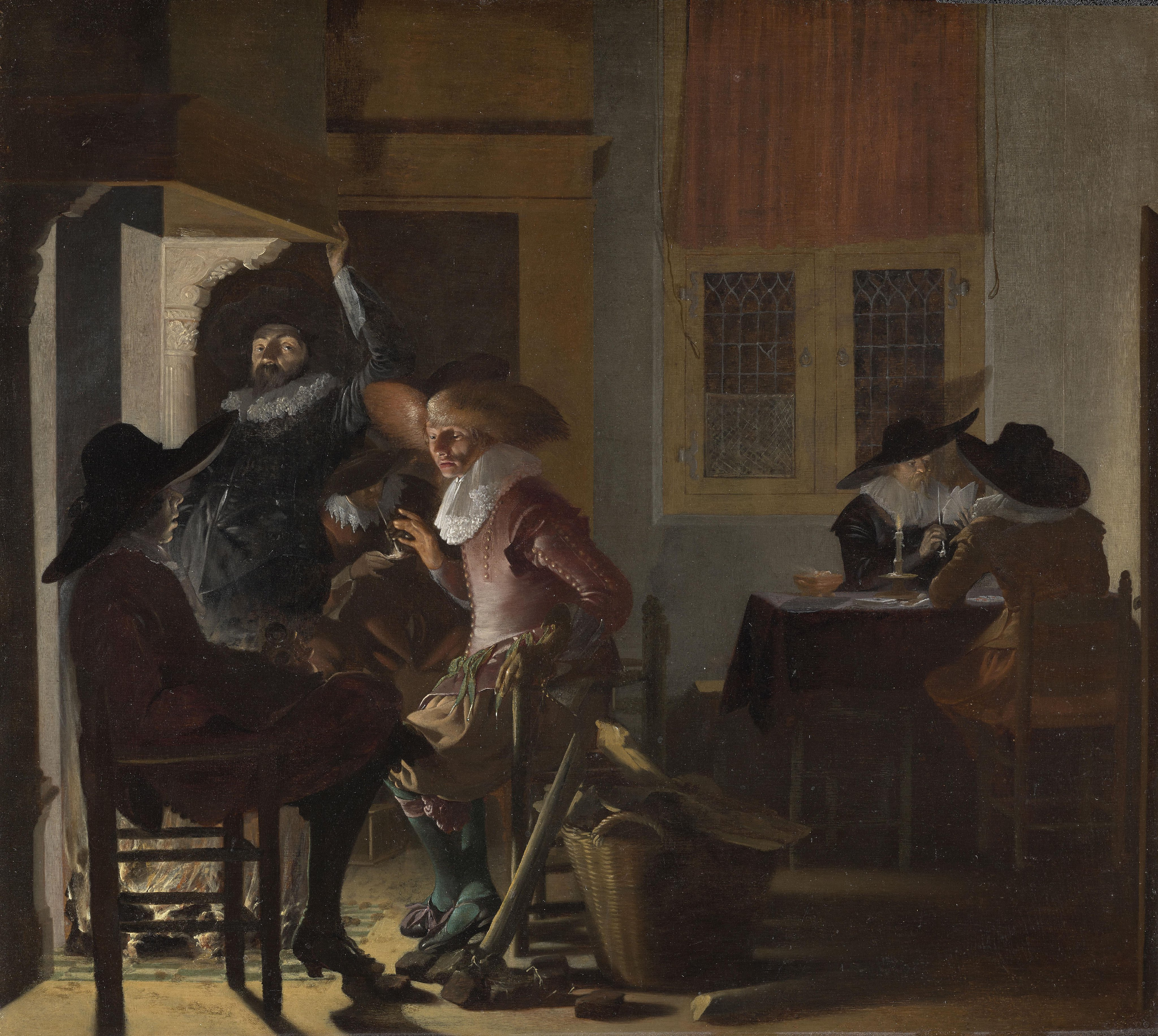 Soldiers beside a Fireplace